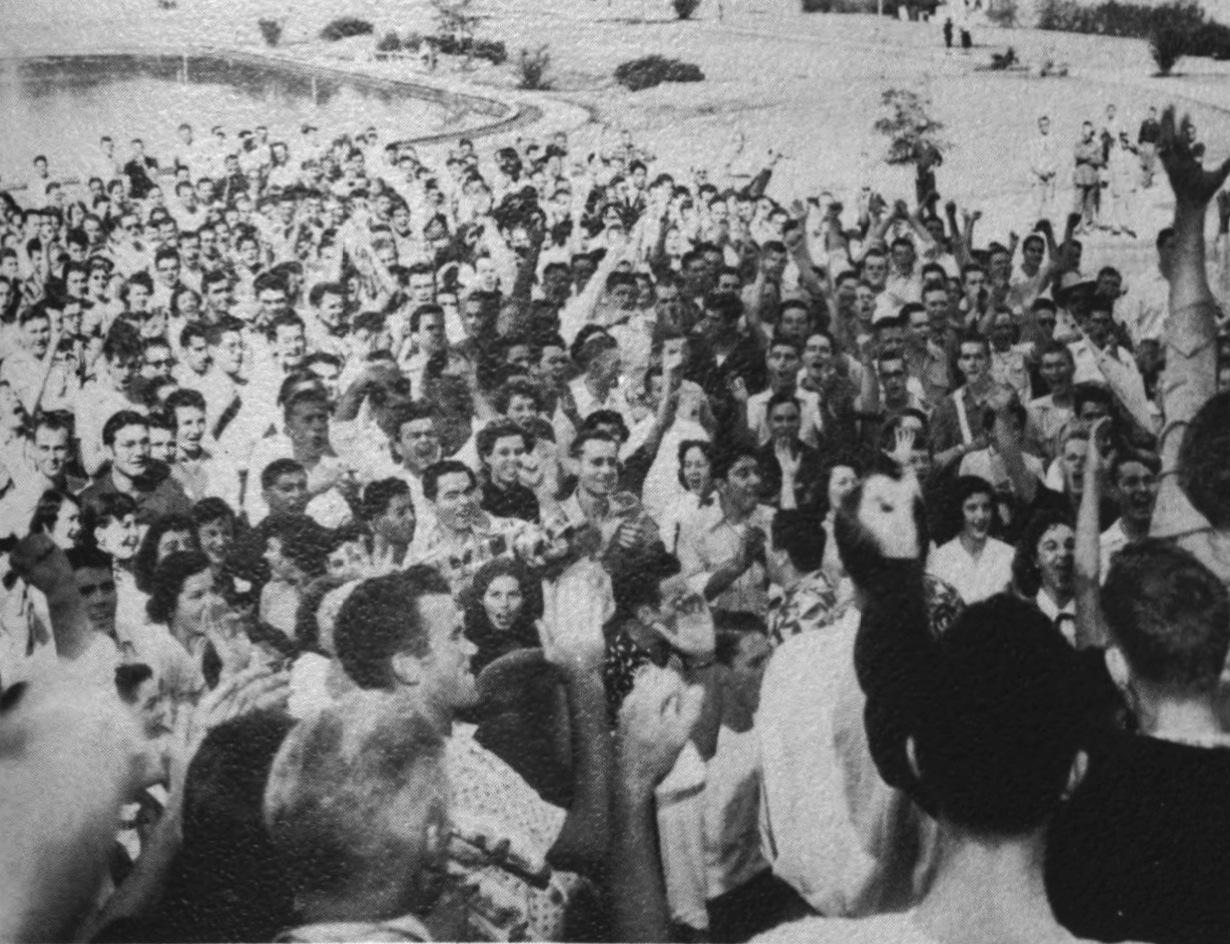 A celebration by University of Houston students during the first school day following the defeat of the Tulsa Golden Hurricane by the 1952 Houston Cougars football team. It was Houston's homecoming game. Students blocked entry into the Roy G. Cullen Building, and declared the day a holiday for the university. Walter W. Kemmerer, then President of the University of Houston, condoned the event.